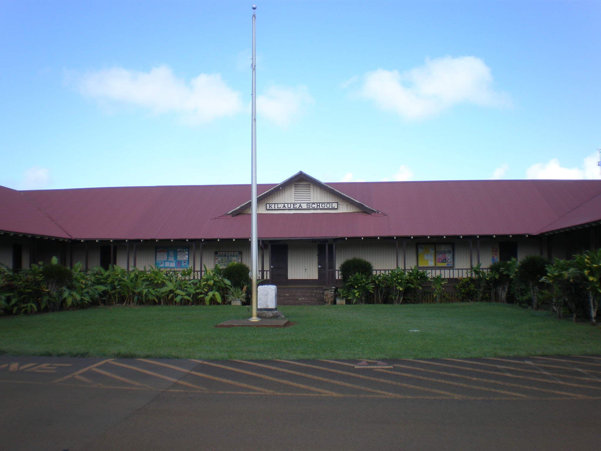 Kilauea School building, 2440 Kolo Rd., Kilauea, Kauaʻi, Hawaii, on National Register of Historic Places, est. 1882